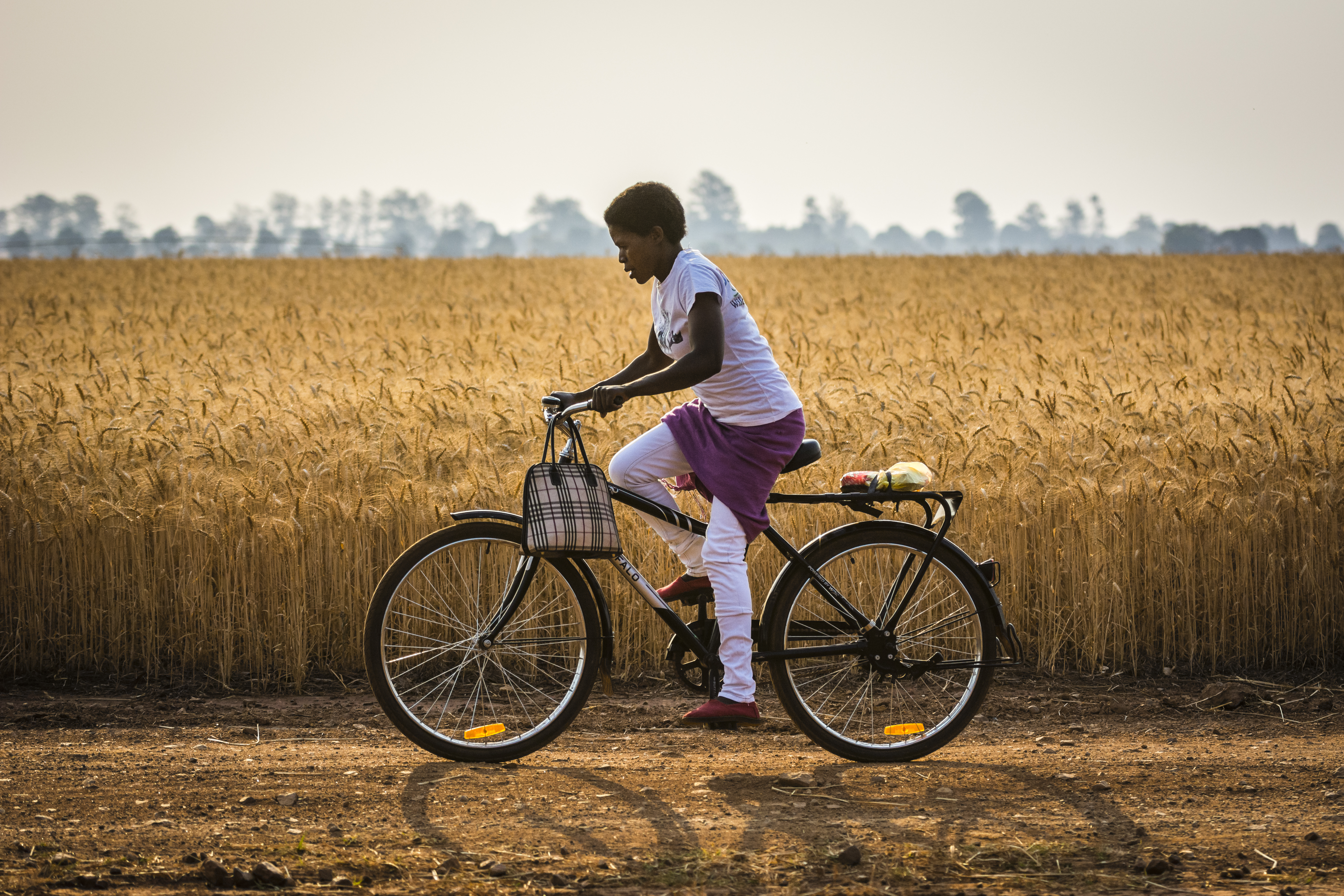 In the rural areas, bicycles are an important means of transport. This girl rides her bicycle on the outskirts of Lusaka, in front of a large field of grain. This is an image with the theme "Africa on the Move or Transport" from: Zambia